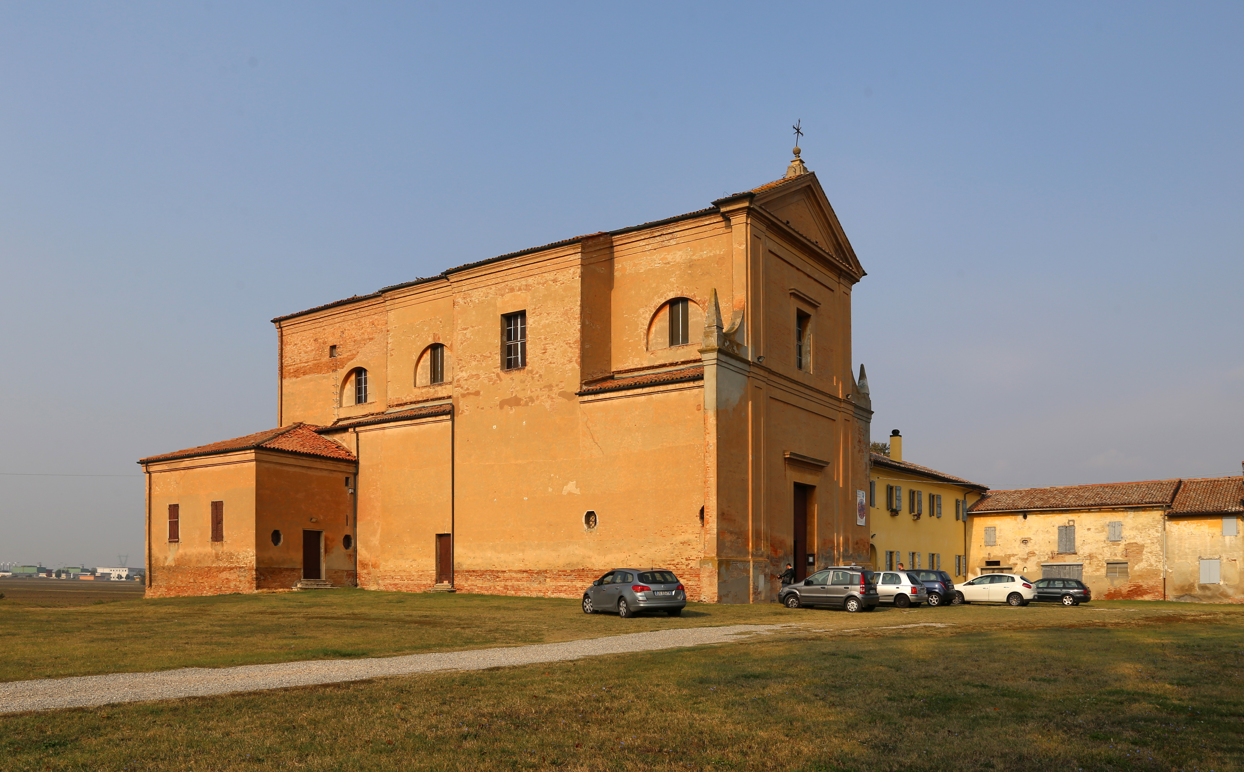 San Giovanni in Triario (San Giovanni in Triario, Minerbio)